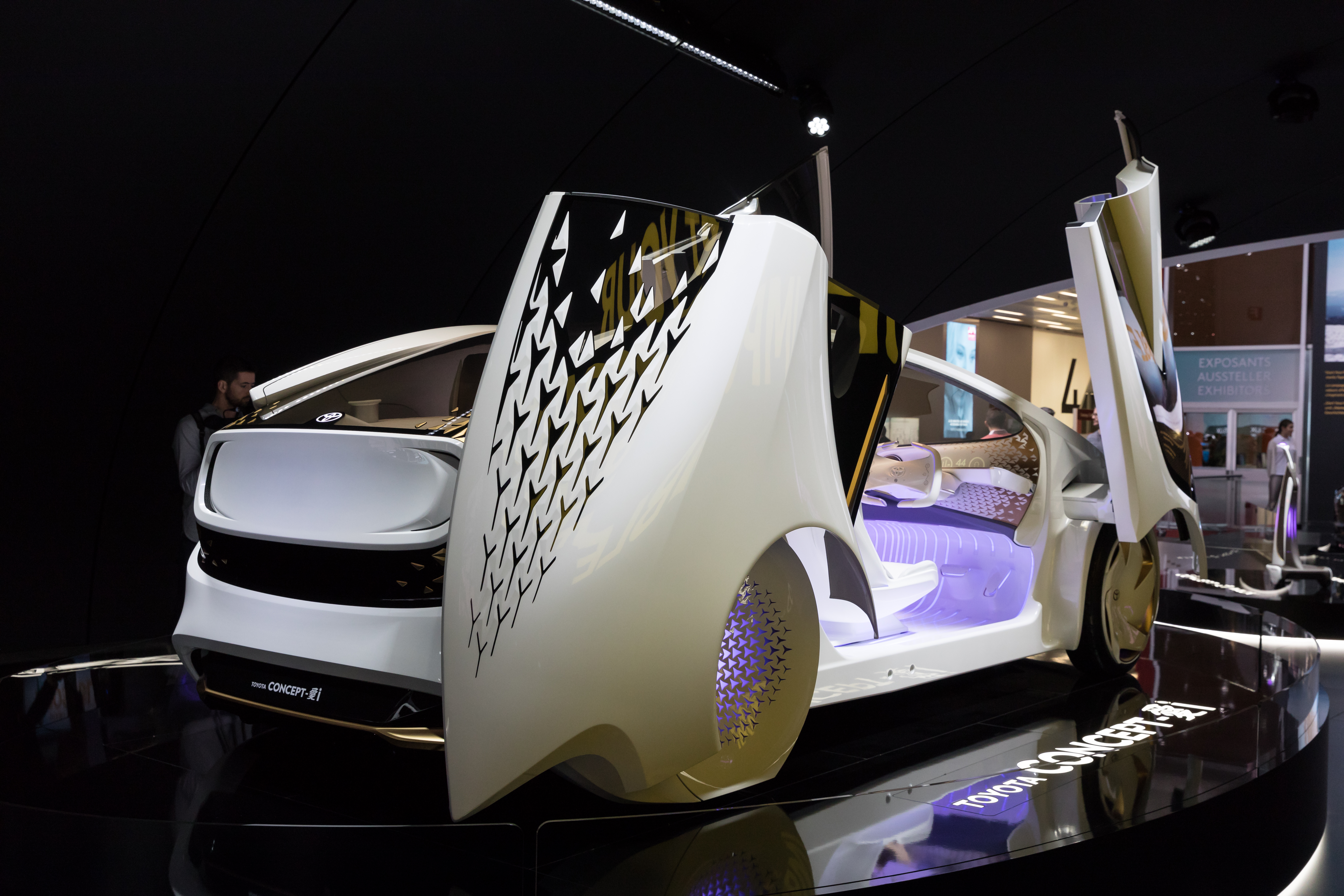 Geneva International Motor Show 2018